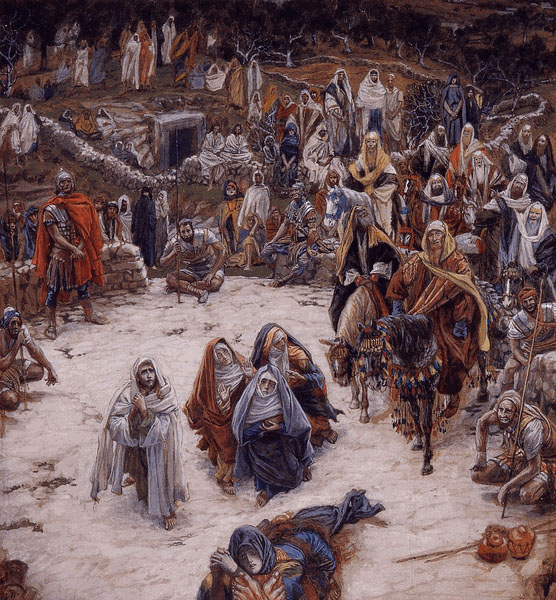 Mary Magdalene, in the immediate foreground, with her long red tresses swirling down her back, kneels at Jesus feet, which are visible at the bottom center. Beyond her, the Virgin Mary clutches her breast, while John the Evangelist looks up with hands clasped. Tissot used the view of Christ himself. Few painters have conceived a similar composition this daring. Viewers, accustomed to looking at the event from the outside, look to imagine themselves in Christ’s place as he gazed on the enemies and friends who were witnessing, or participating in his death.